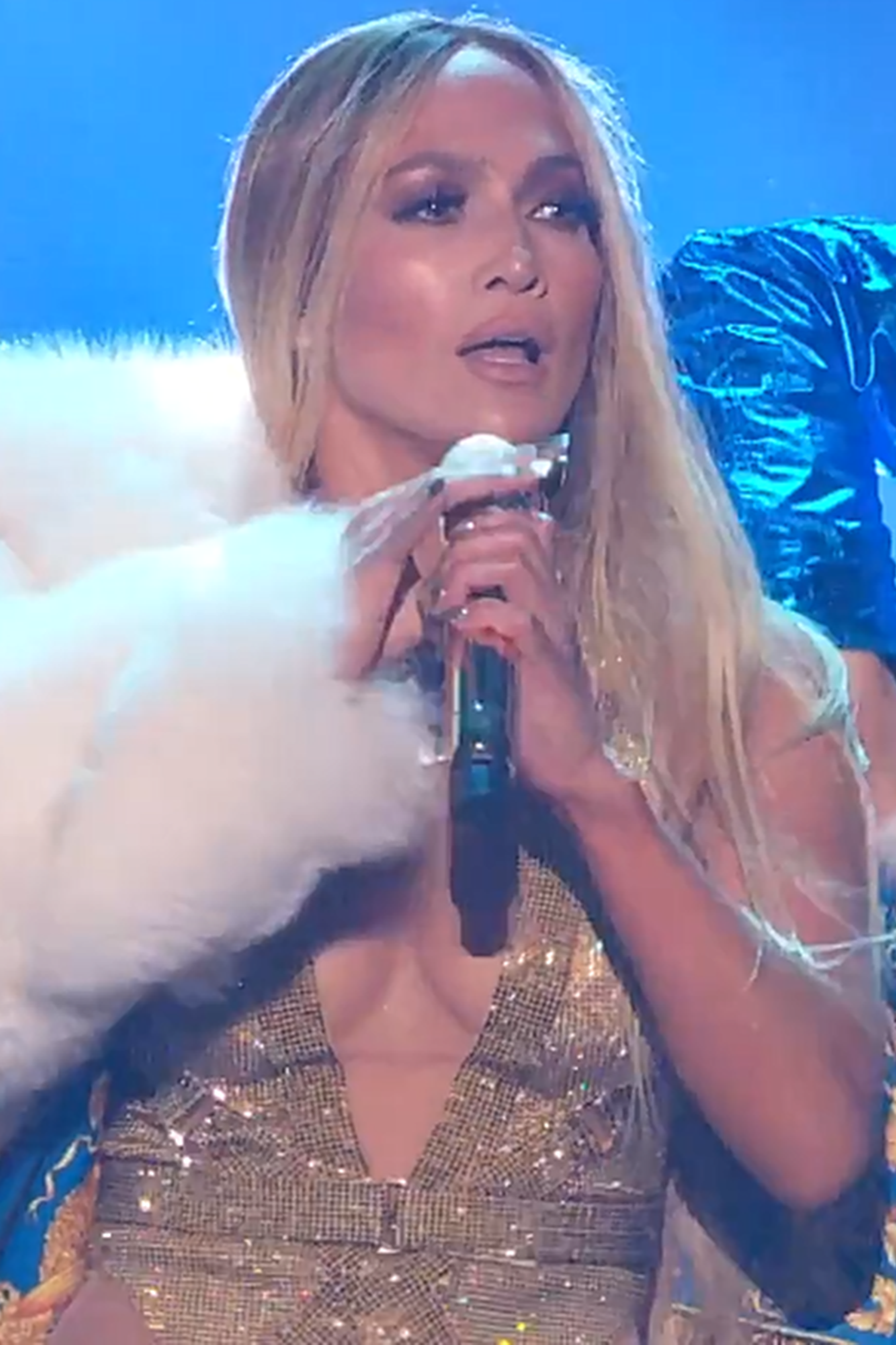 Jennifer Lopez performing at the Video Music Awards in New York City, on August 20, 2018.